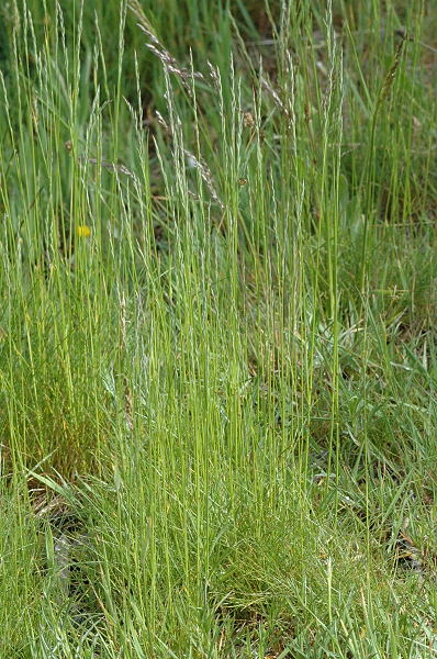 Picture taken in Commanster, Belgian High Ardennes . Species: Lolium perenne